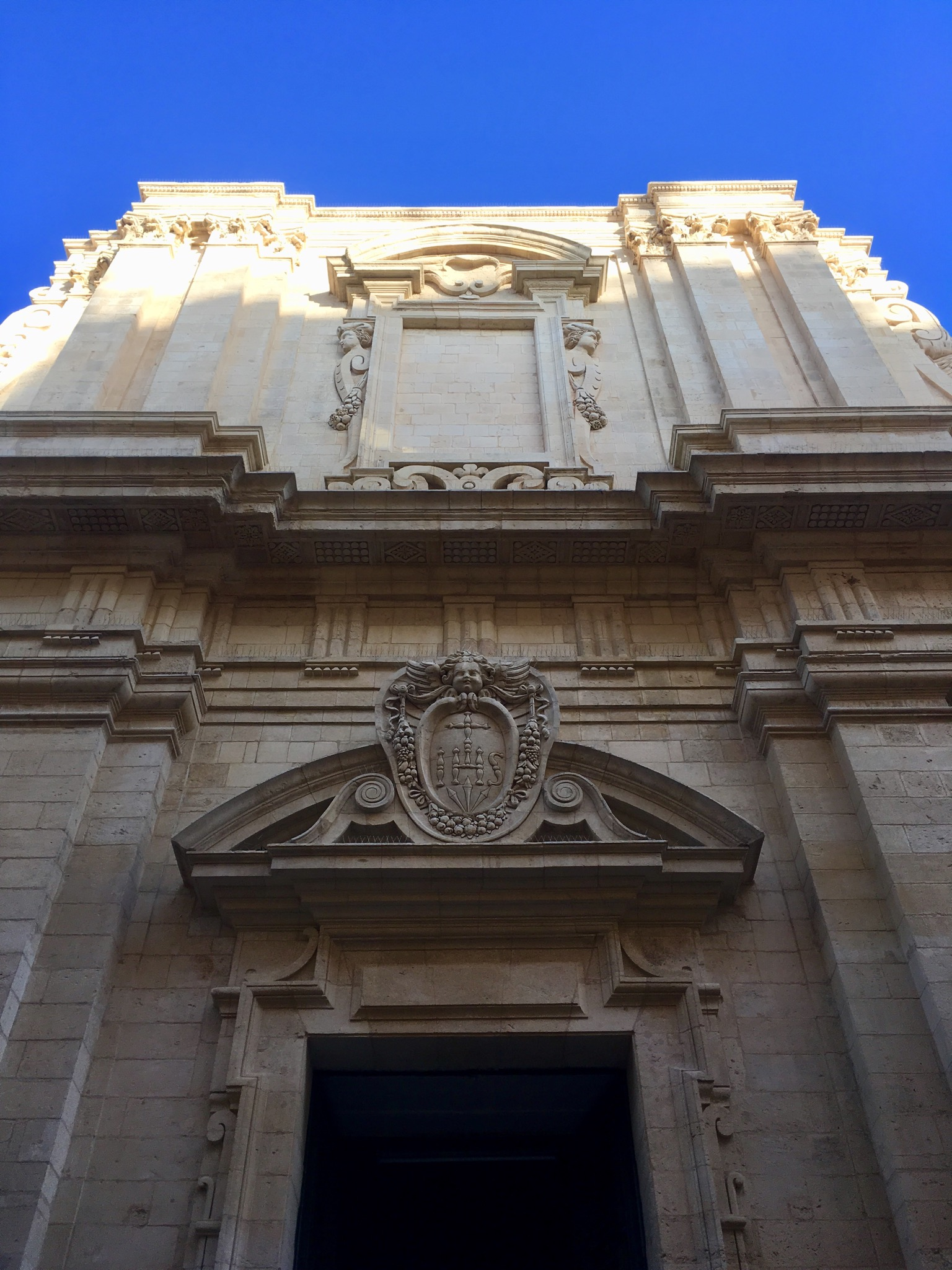 Exterior of the Jesuits Church, Valletta